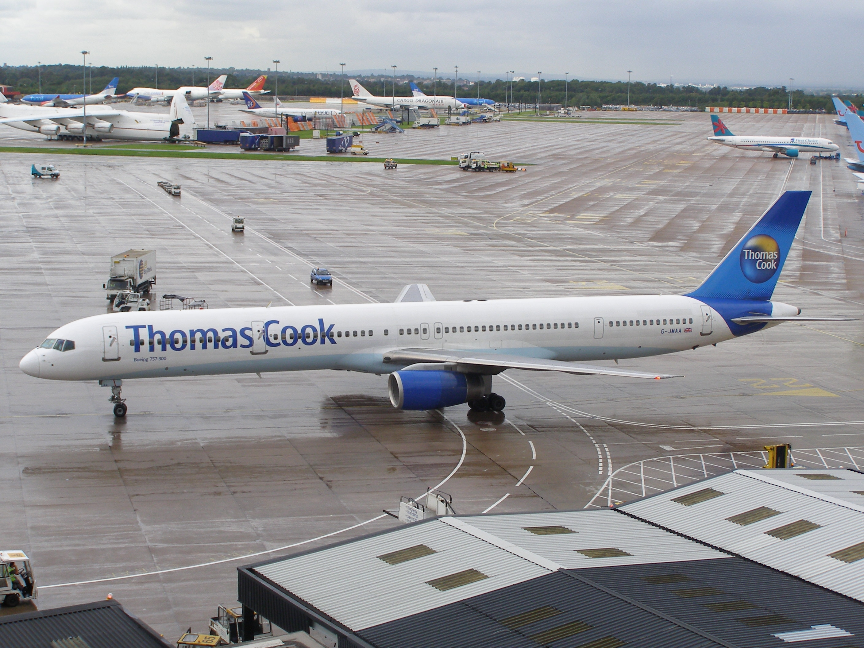 Boeing 757-300 G-JMAA of Thomas Cook Airlines at Manchester Airport, England.